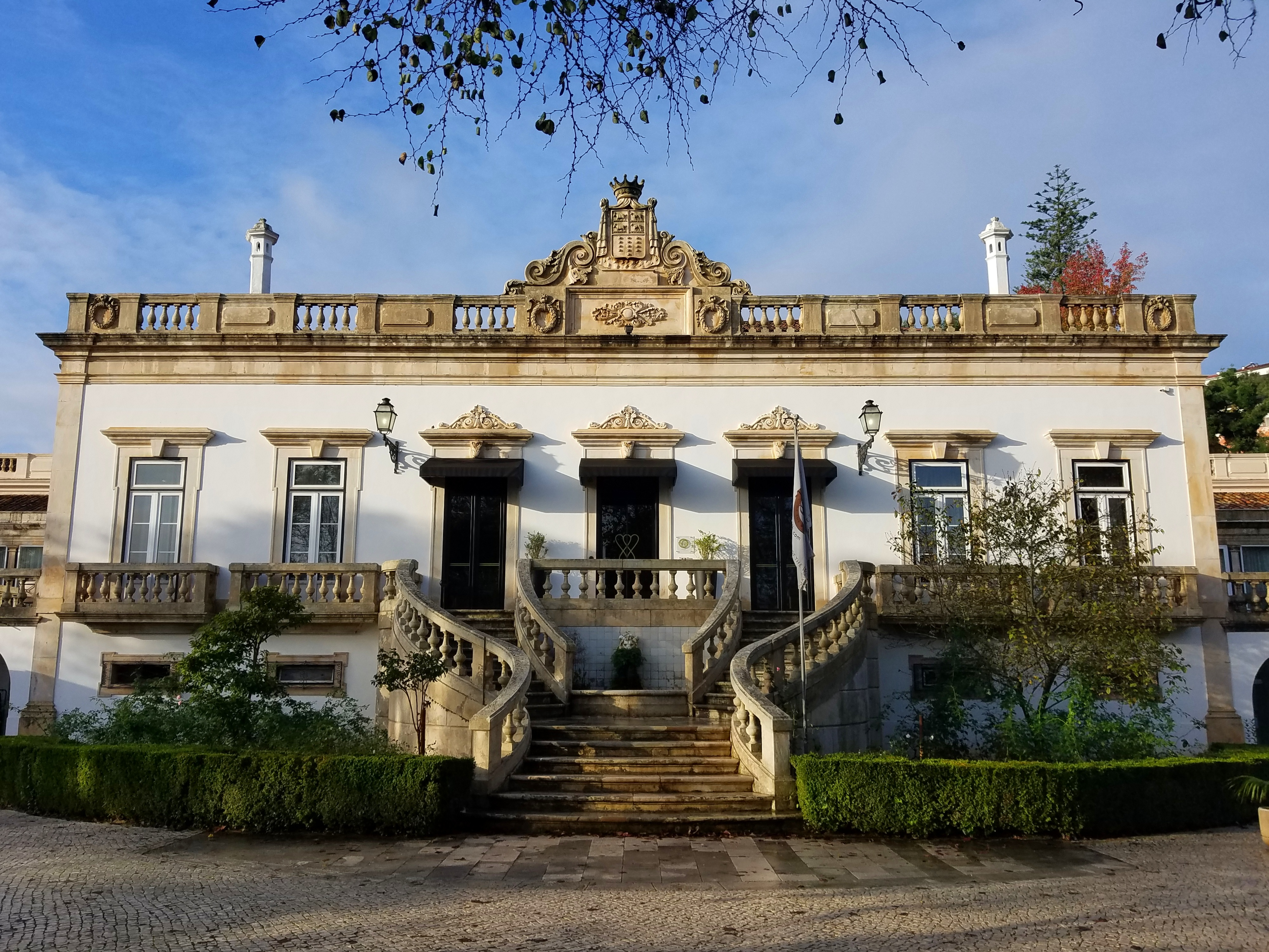 Quinta das Lagrimas front facade.